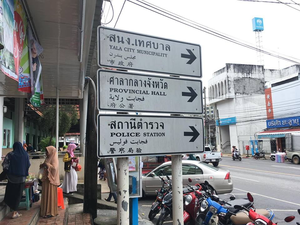 Traffic sign in Yala, 2018